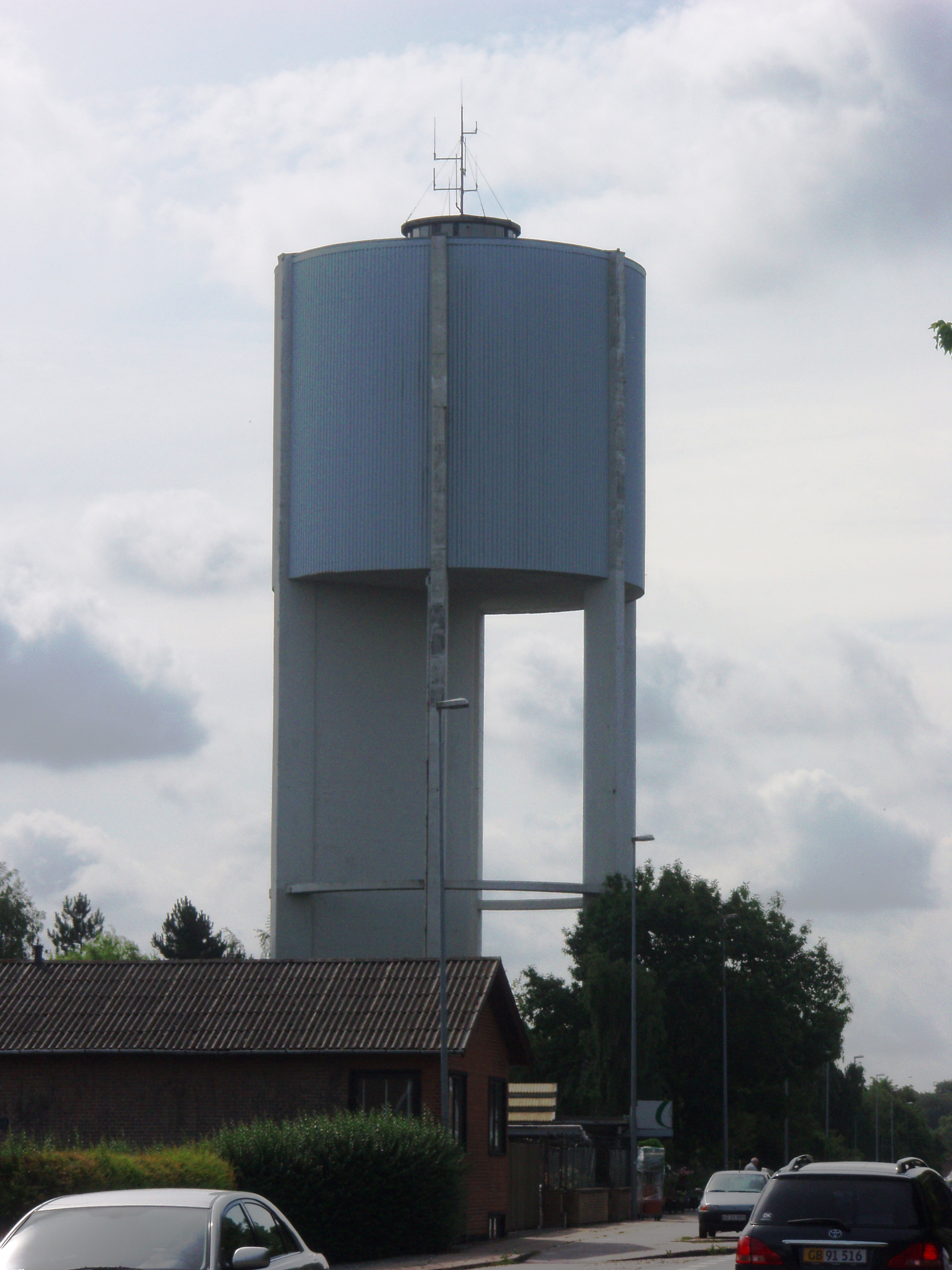 Vandtårnet på Hadsundvej